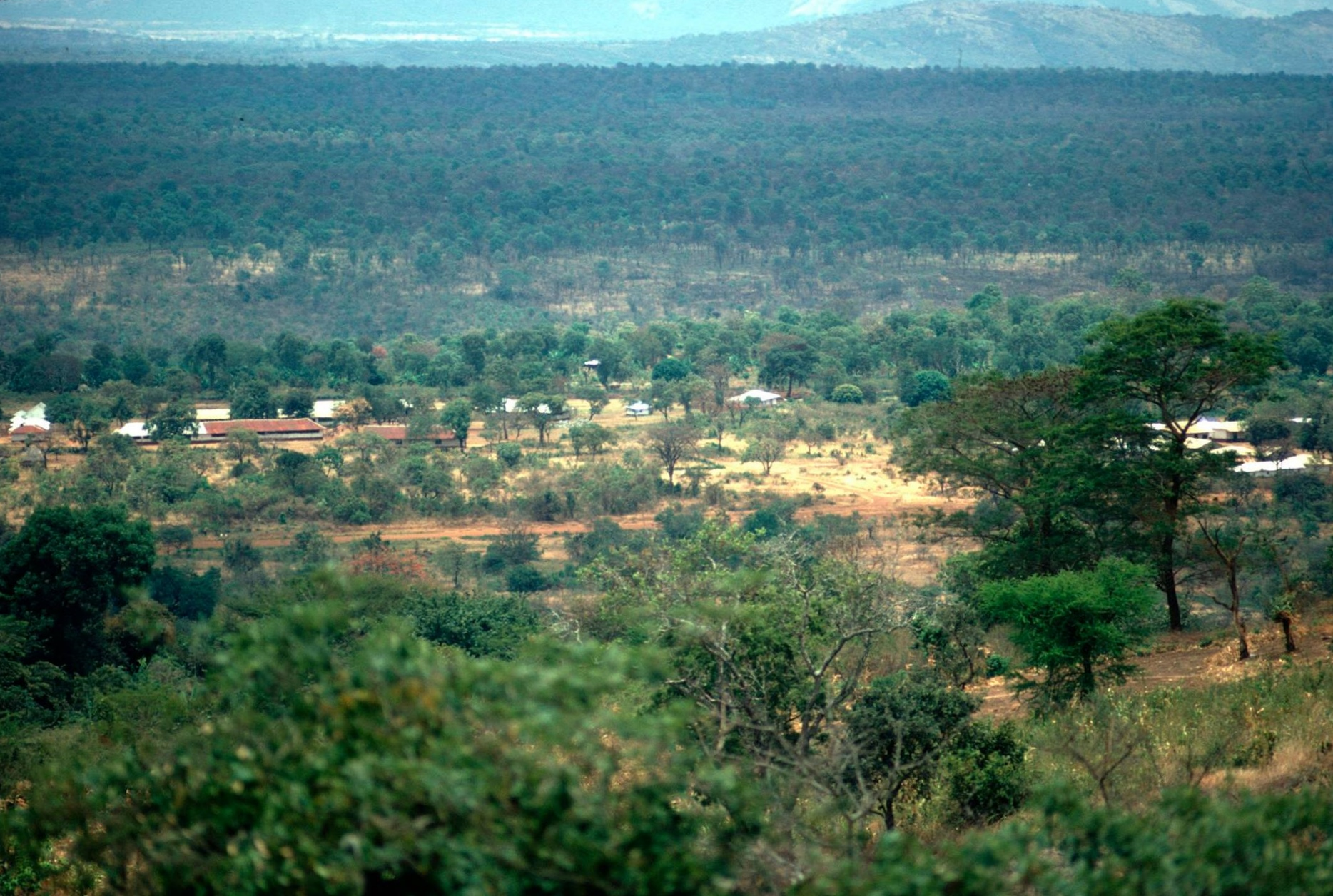 Kanyuambora, Embu, Kenya, an aerial view. Photo by BMJ Muriithi